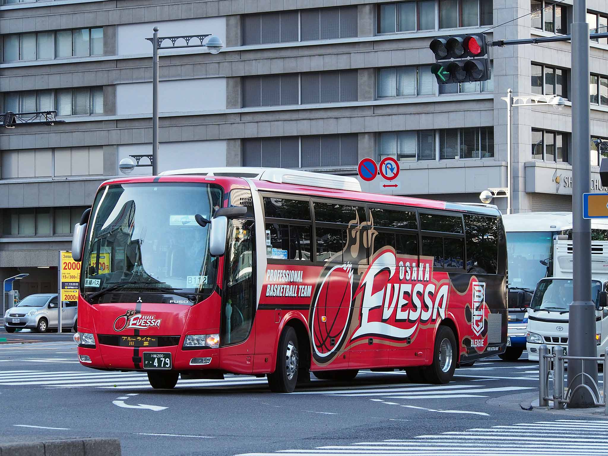 Fleet of Koei Kotsu Bus, for intercity bus "Blue Liner". Model: Mitsubishi Fuso Aero Ace QTG-MS96 License plate: STK200 KA0479 Place: Kajibashi Crossing, Chiyoda Ward, Tokyo Japan